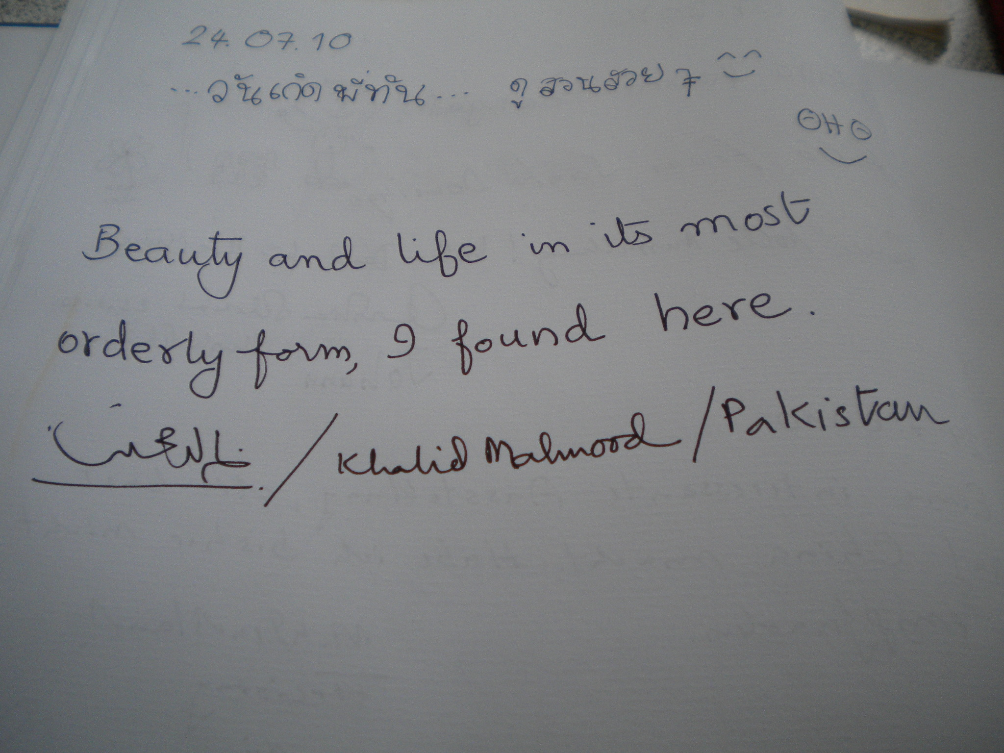 Comments of a visitor on a guestbook in Botanical garden Munich